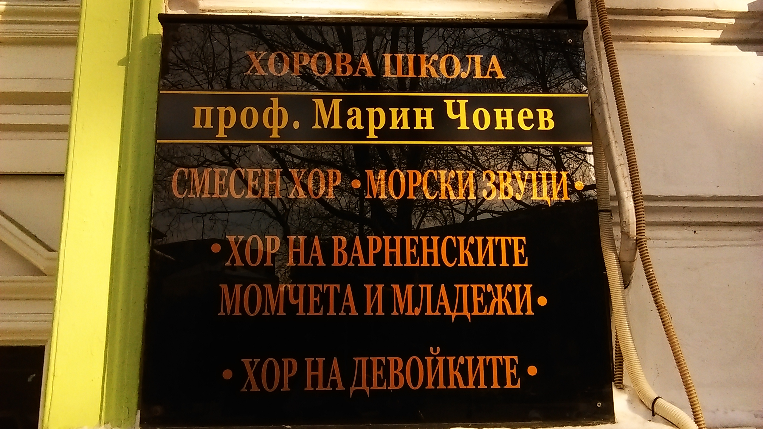 Varna choirs